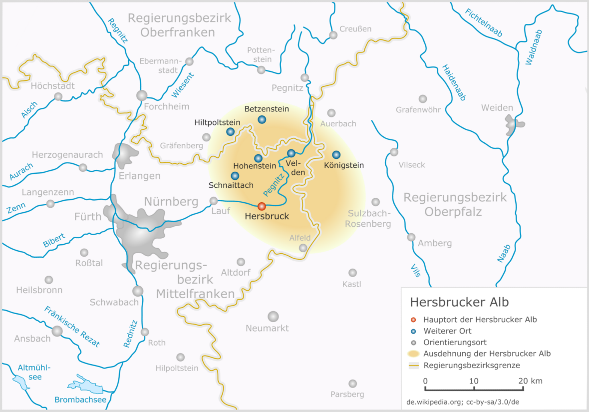 Map of the Hersbrucker Alb